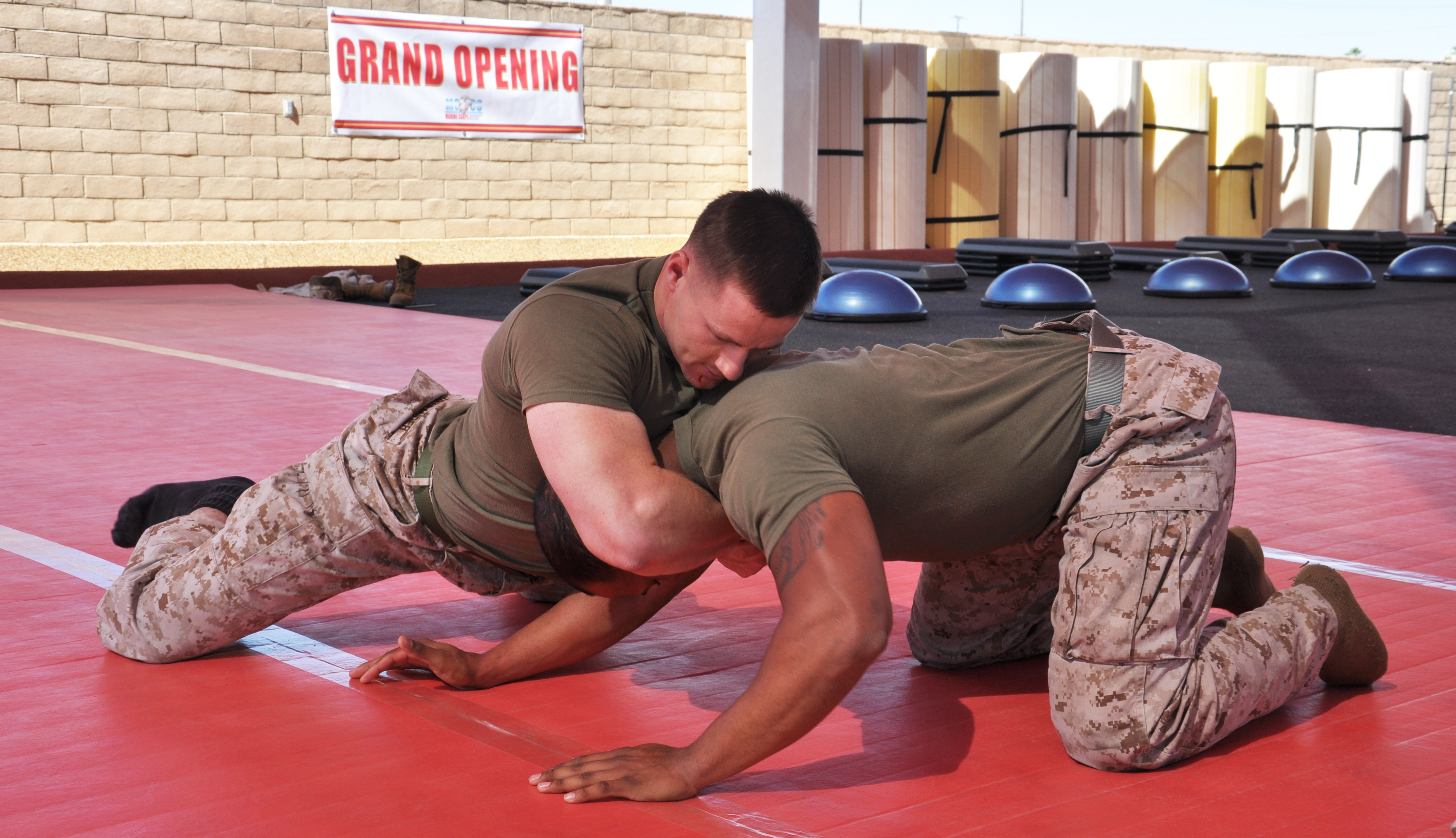 Sgt. Chad Ostrander, communications assets manager and Lance Cpl. Luis Castro, adjutant clerk, both stationed with Headquarters Battalion, Marine Corps Logistics Base Barstow try to out-muscle each other while grappling during the grand opening of the new martial arts training facility aboard the installation June 6.